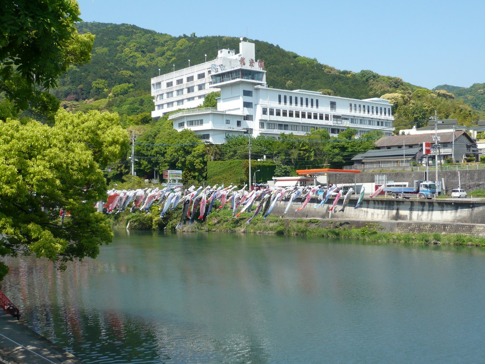 Hotel Ryūtōen.